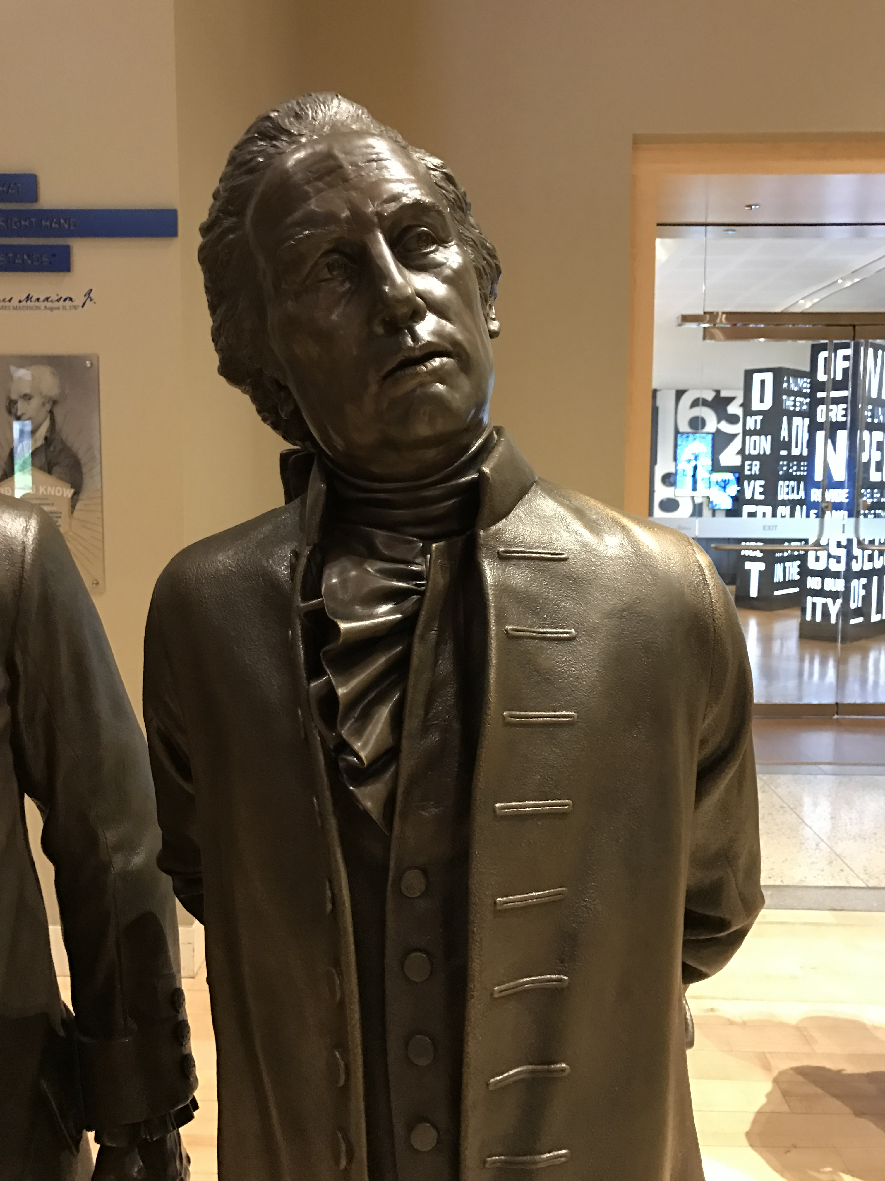 John Rutledge Statue